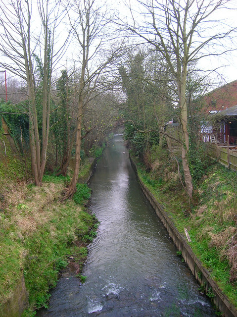 River Uck Taken from the High Street road bridge. The Uck joins the Ouse outside Isfield.